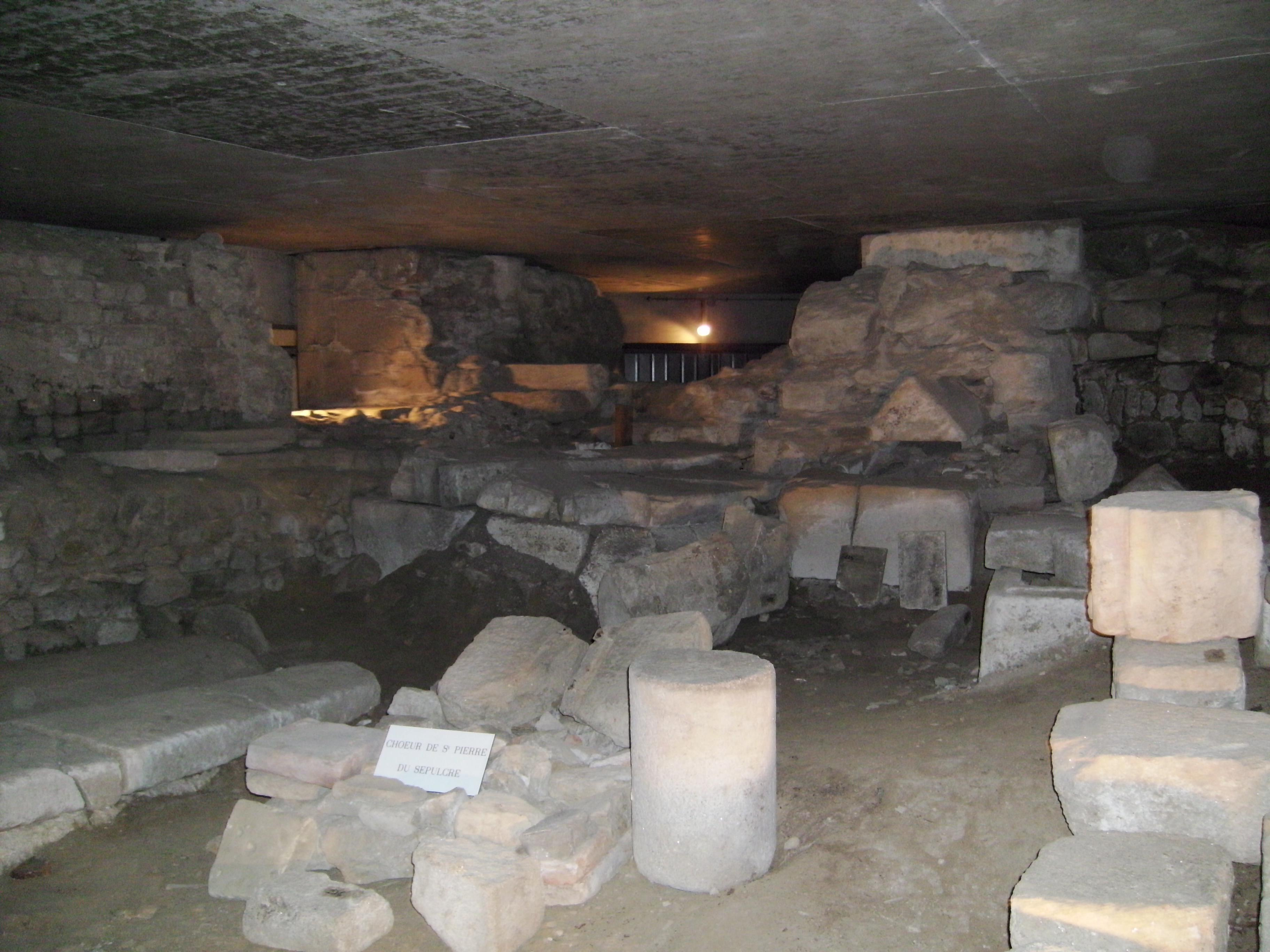 Remains of St Peter's church, part of shrine of St Martial.